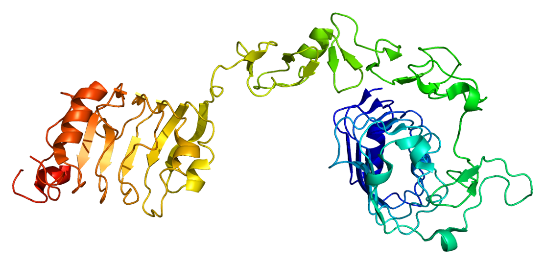 Structure of the IGF1R protein. Based on PyMOL rendering of PDB 1igr.